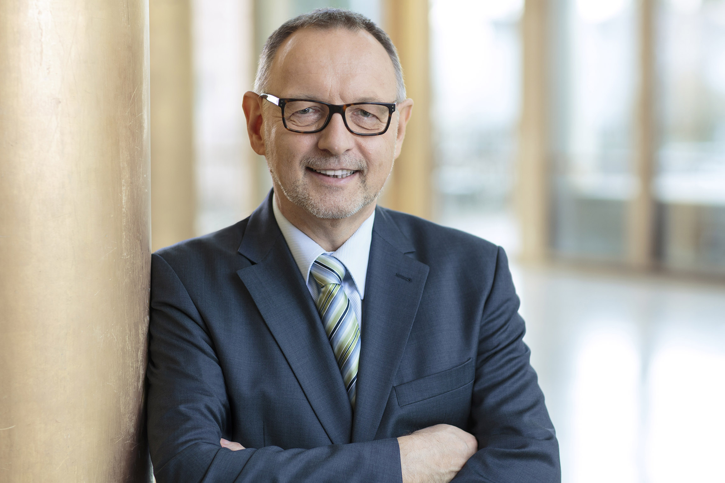 Manfred Krupp, Director-General of German public broadcaster Hessischer Rundfunk Photograph by Ben Knabe